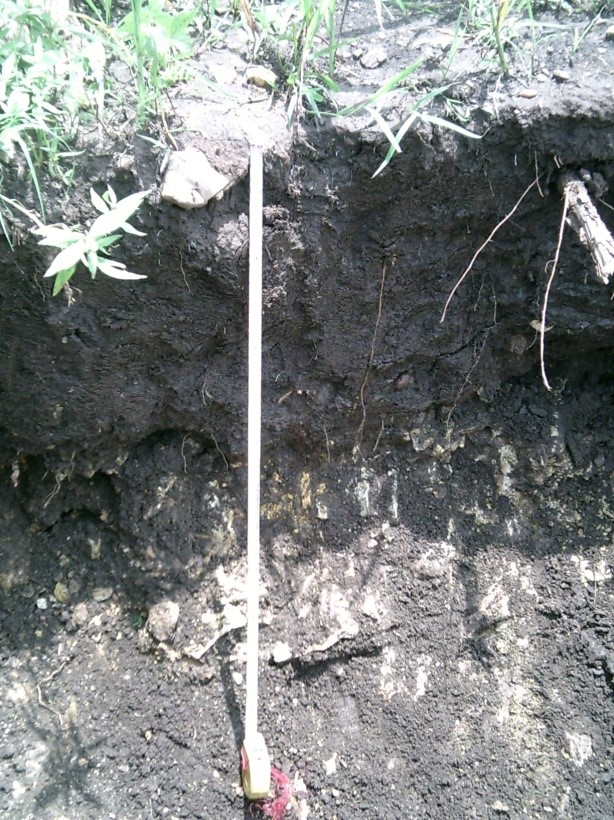 Epileptic Protovertic Cambisol in Taget Ethiopia profile